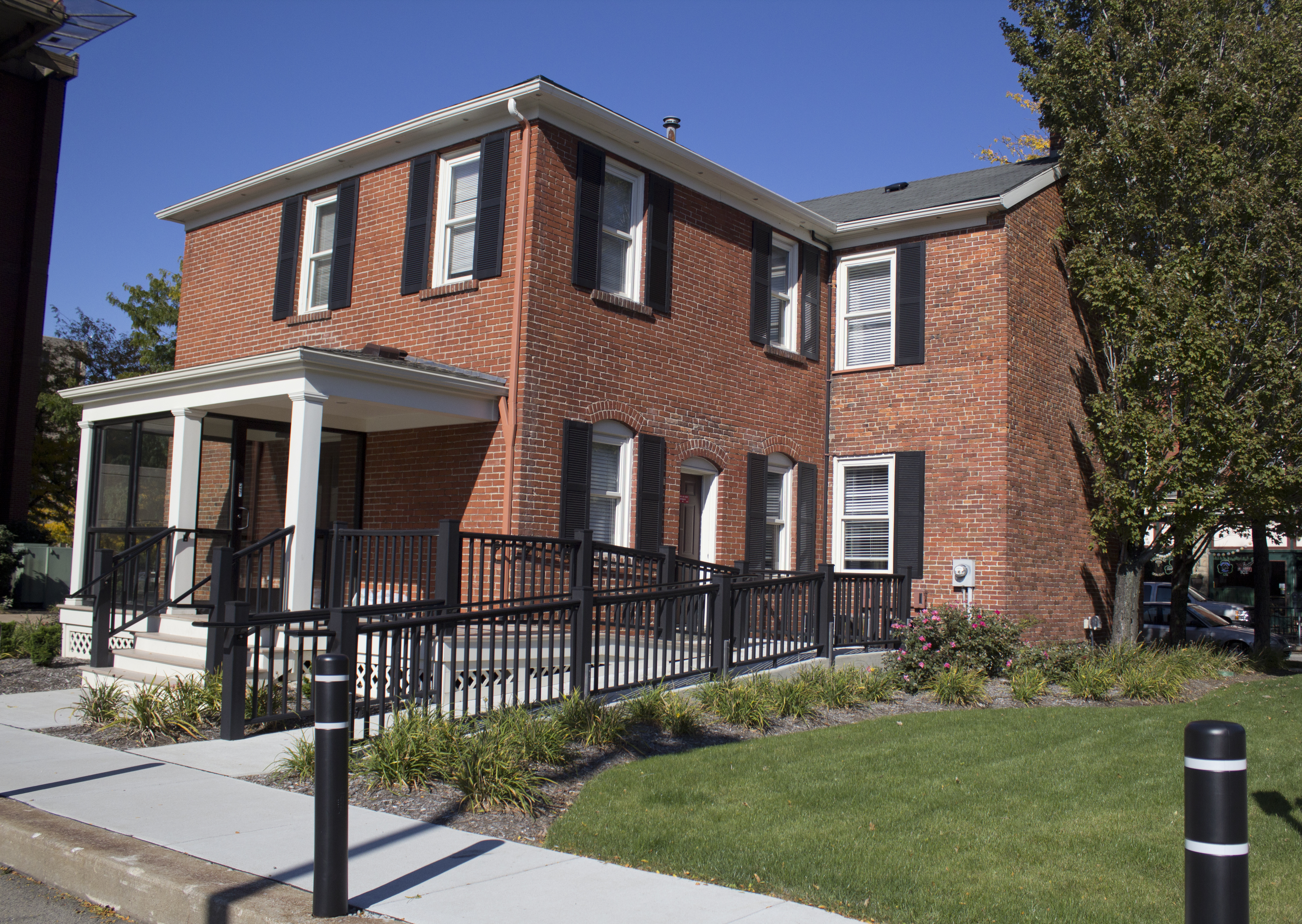 Pierre S. V. Hamot House Main entrance to house.